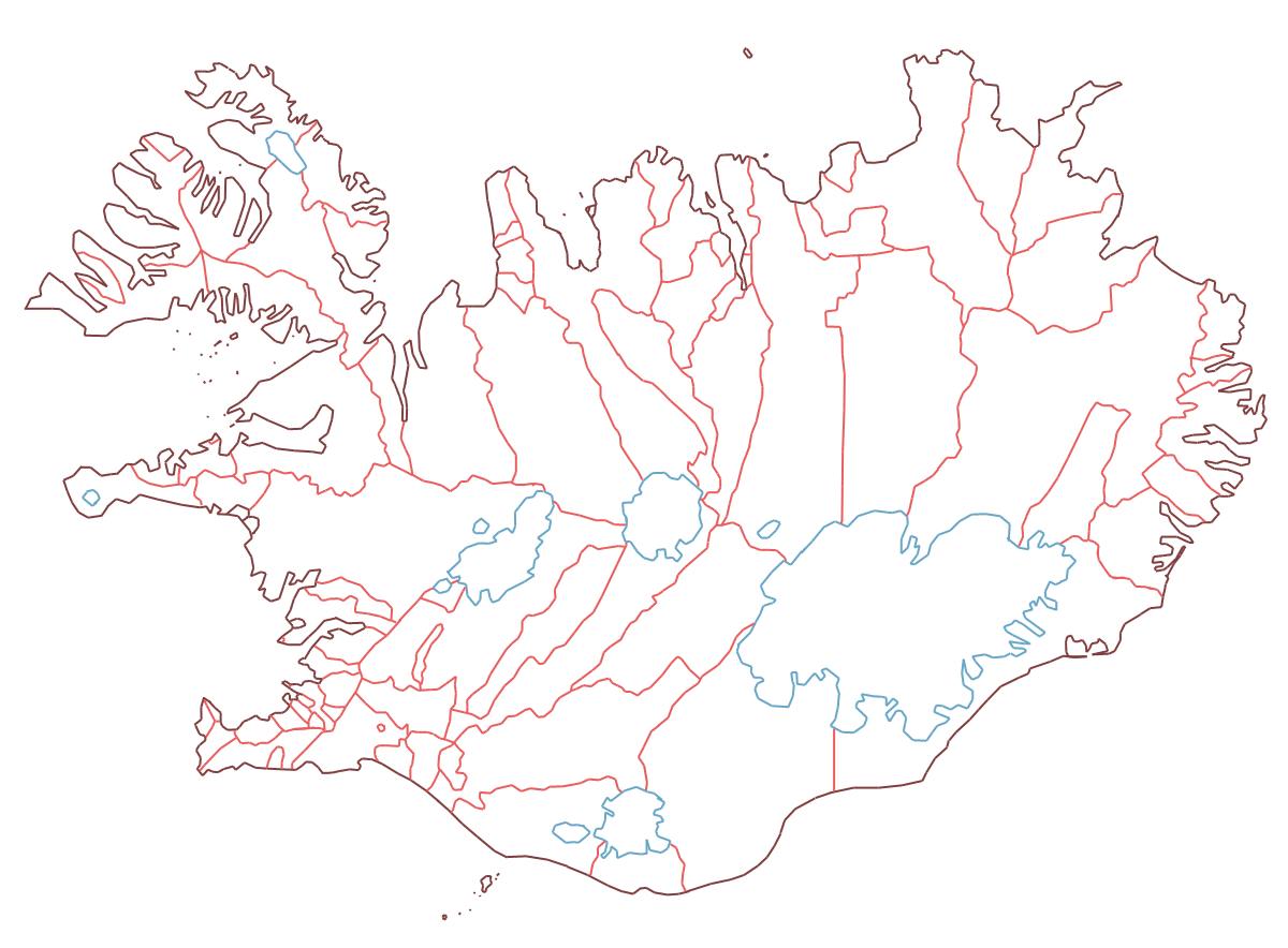 A base map of the municipalities of Iceland.